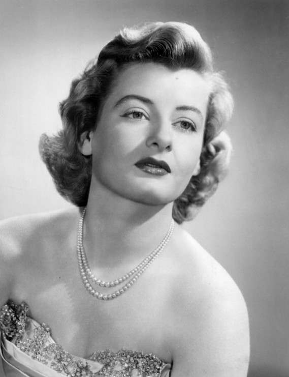 Photo of actress Constance Ford from the daytime drama, Search for Tomorrow. Ford also had later roles in other daytime dramas.